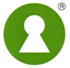 Keyhole